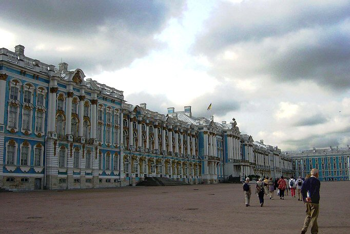 Pushkin (Russia), Catherine Palace